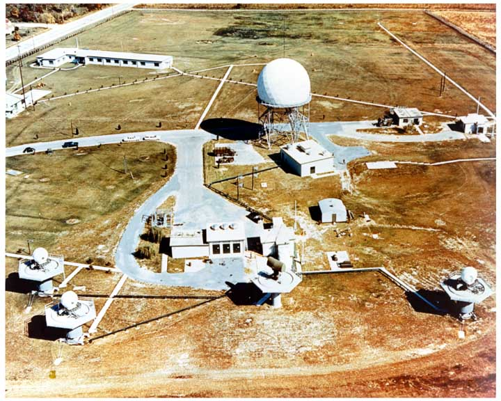 The Integrated Fire Control area of the Nike Hercules system contained the radars and computers driving the missile site. The large white dome top center houses the HIPAR early warning radar. The hexagonal towers along the lower edge hold the shorter-range tracking radars. On the left are the target tracking and discrimination systems, the right is the missile tracking radar, and in the center, dark green, is the LOPAR search radar. LOPAR was originally the early warning radar for the Nike Ajax system, and was retained in Hercules to simplify changes to the fire control systems.